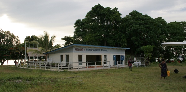 Feb 2005 Photo of Gizo Airport, Solomon Islands. Durry42 14:30, 2 April 2007 (UTC)